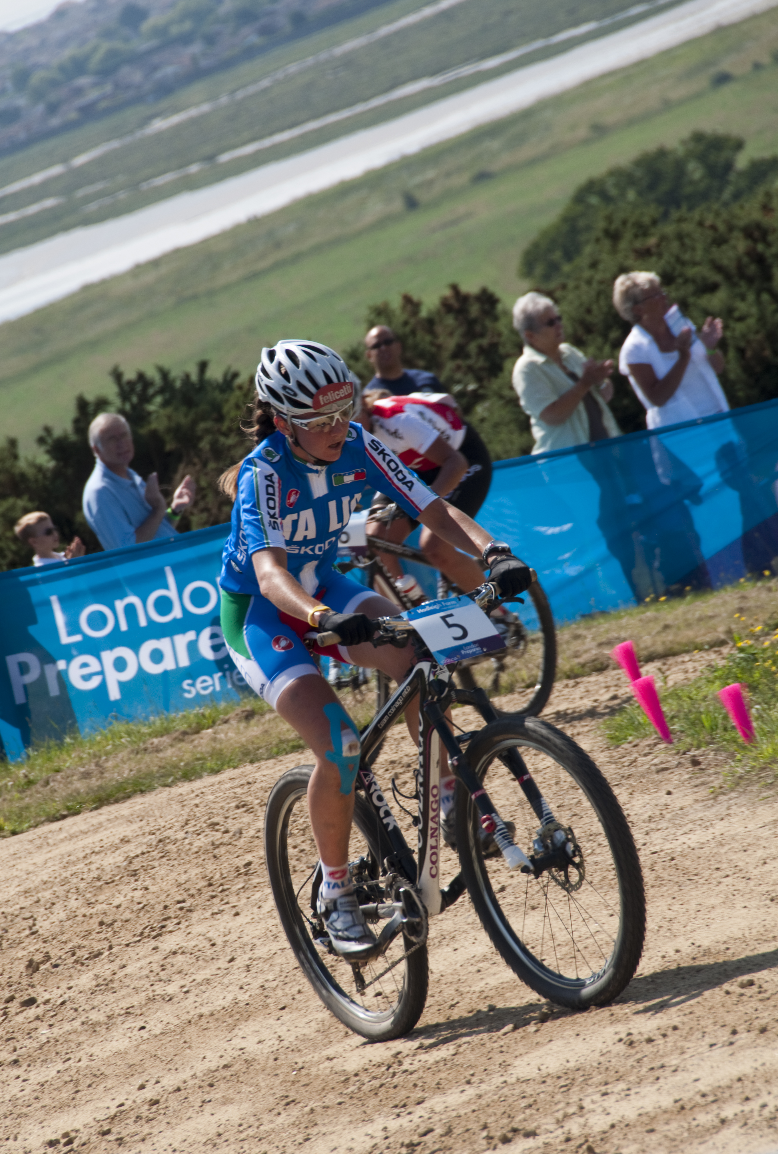 Eva Lechner on the 2011 pre-olympic Mountain bike course